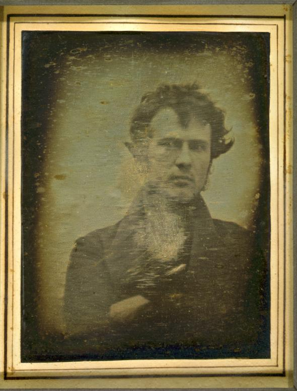 Self-portrait by Robert Cornelius